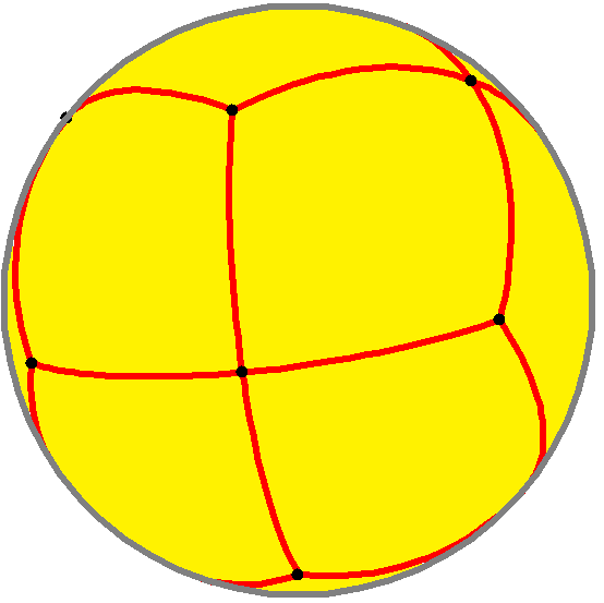 Spherical polyhedron rhombic dodecahedron